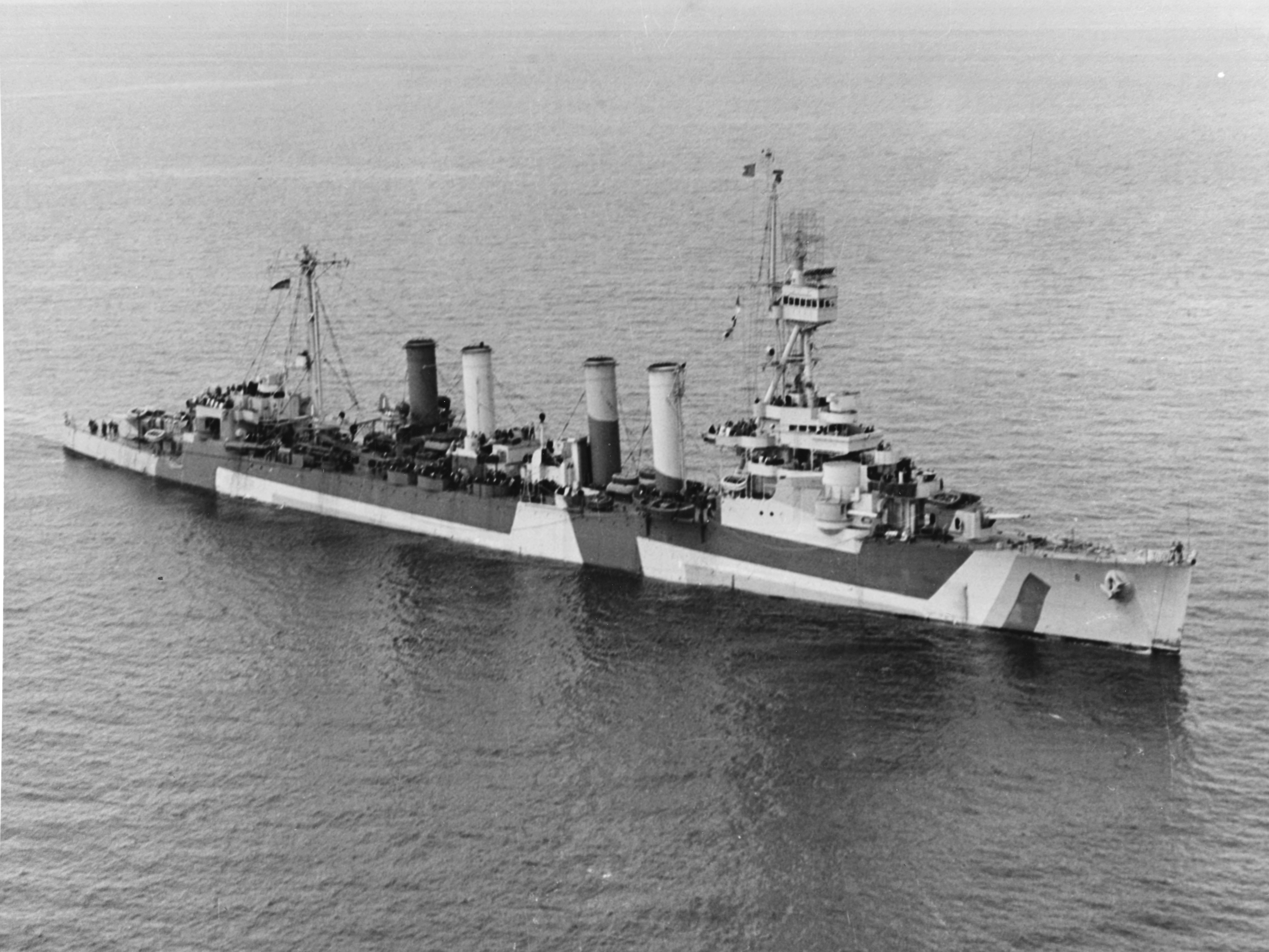 The U.S. Navy light cruiser USS Detroit (CL-8) off Port Angeles, Washington (USA), on 14 April 1944. Her camouflage is Measure 33, Design 3D.